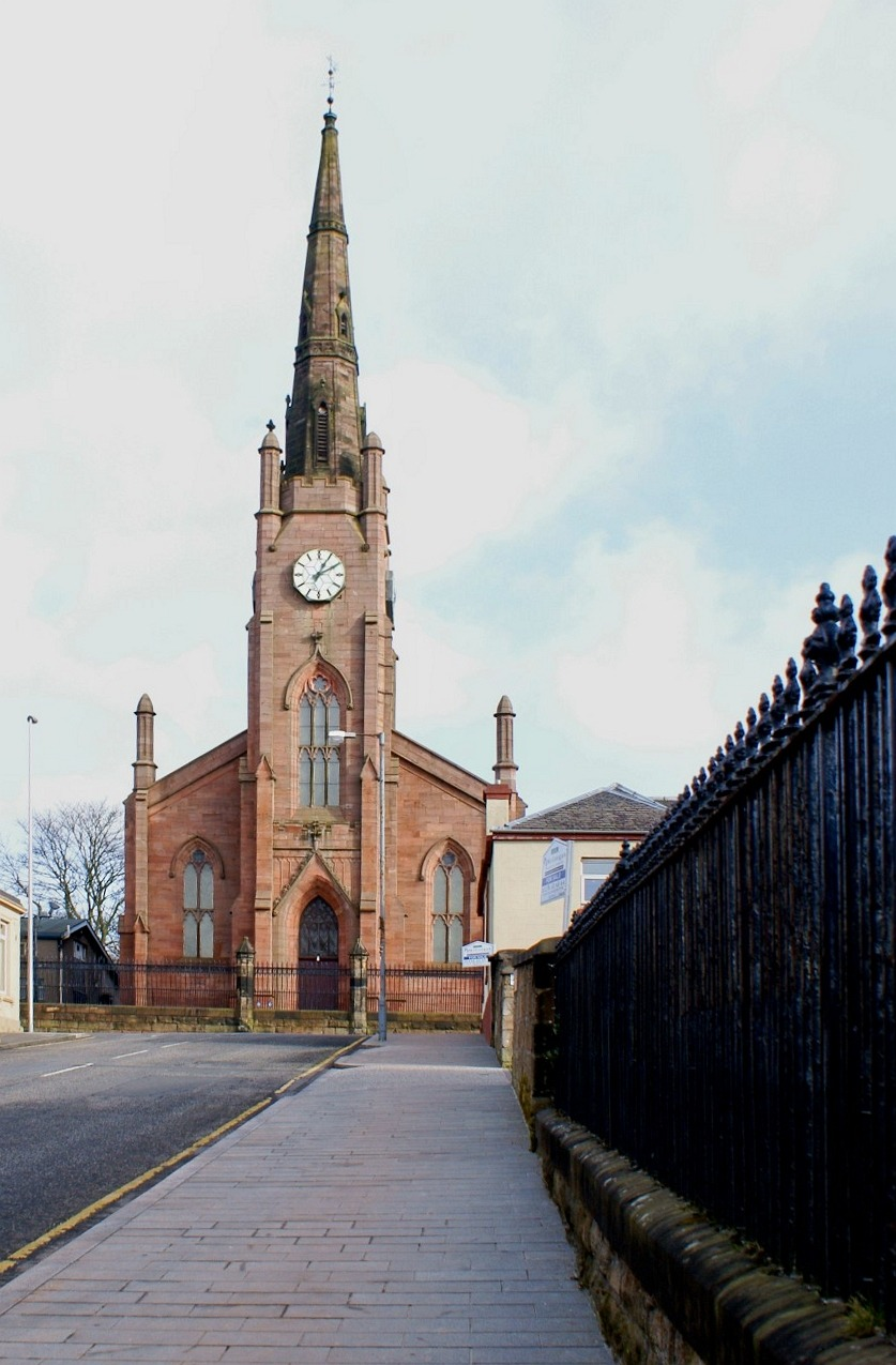 Coatbridge church, North Lanarkshire, Scotland